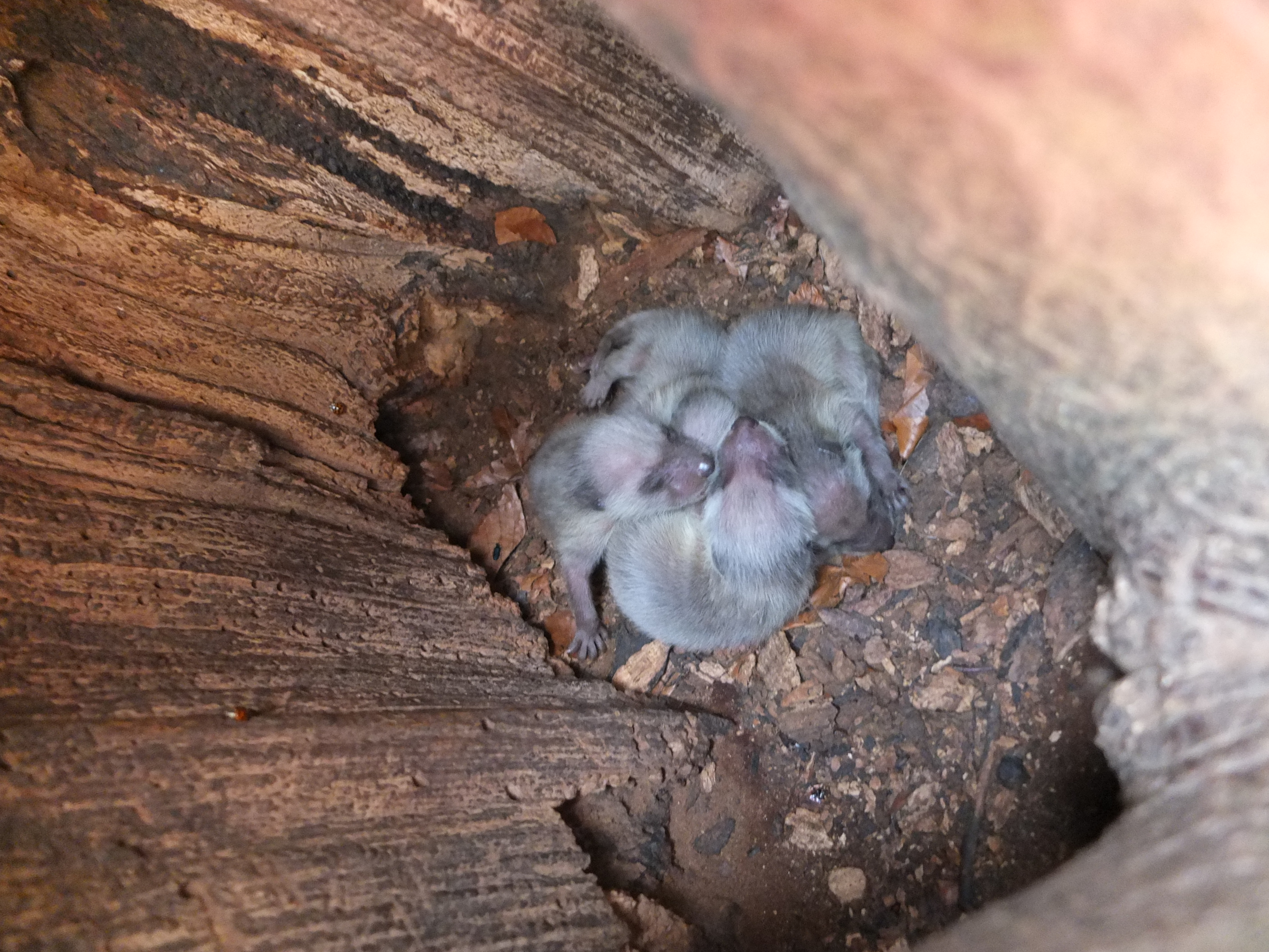 Four Raccoon kits in a tree hollow of a beech tree in the Nature Reserve "Leitmarer Felsen". Sauerland, Germany.